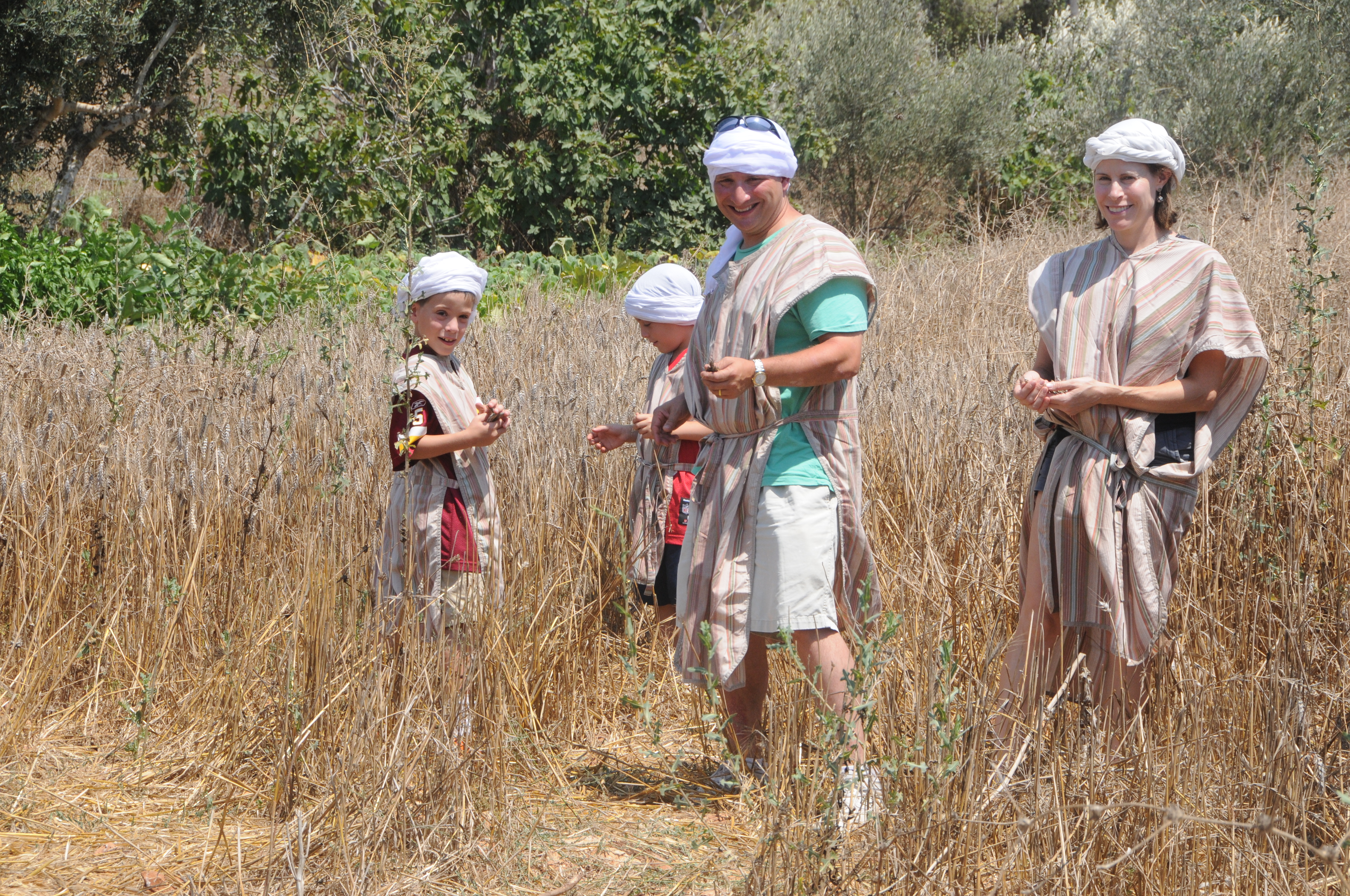 The Bread Basket activity in Kfar Kedem, where visitorns can learn about preparing the bread in ancient times